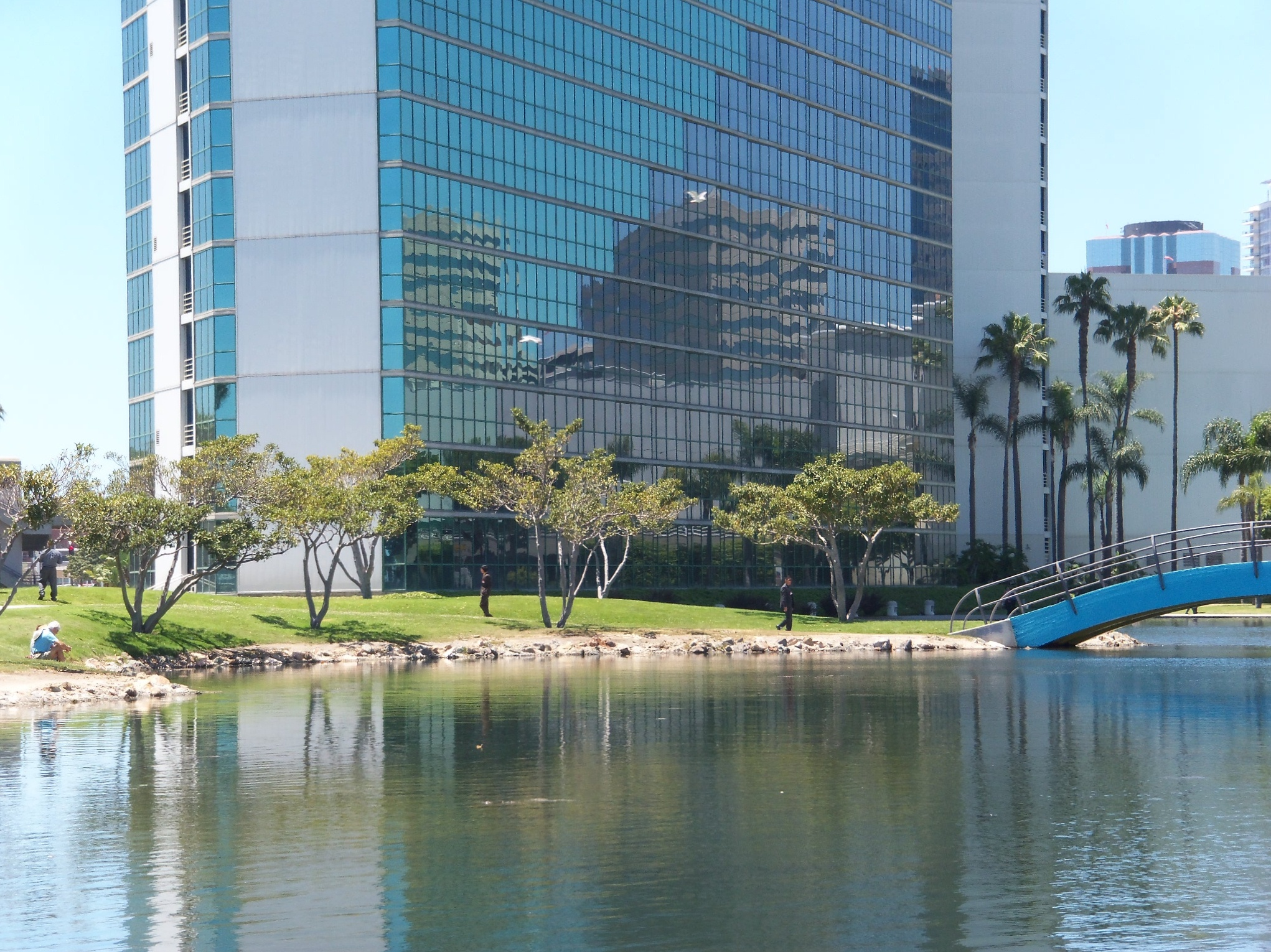 Long Beach Convention Center